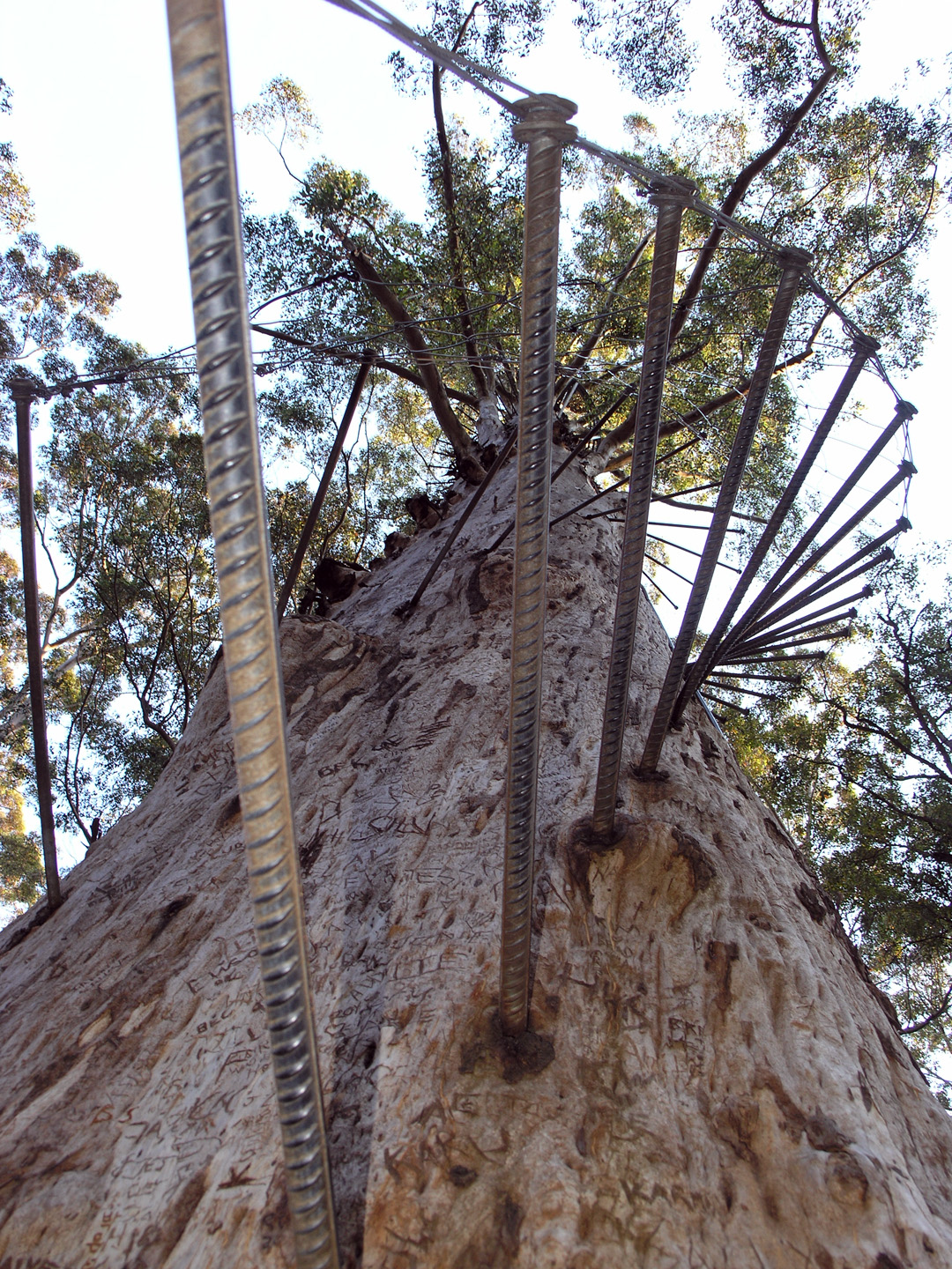 Photo of a the Diamond Tree from the ground. A huge Karri tree used as a fire lookout, near Manjimup in Western Australia.